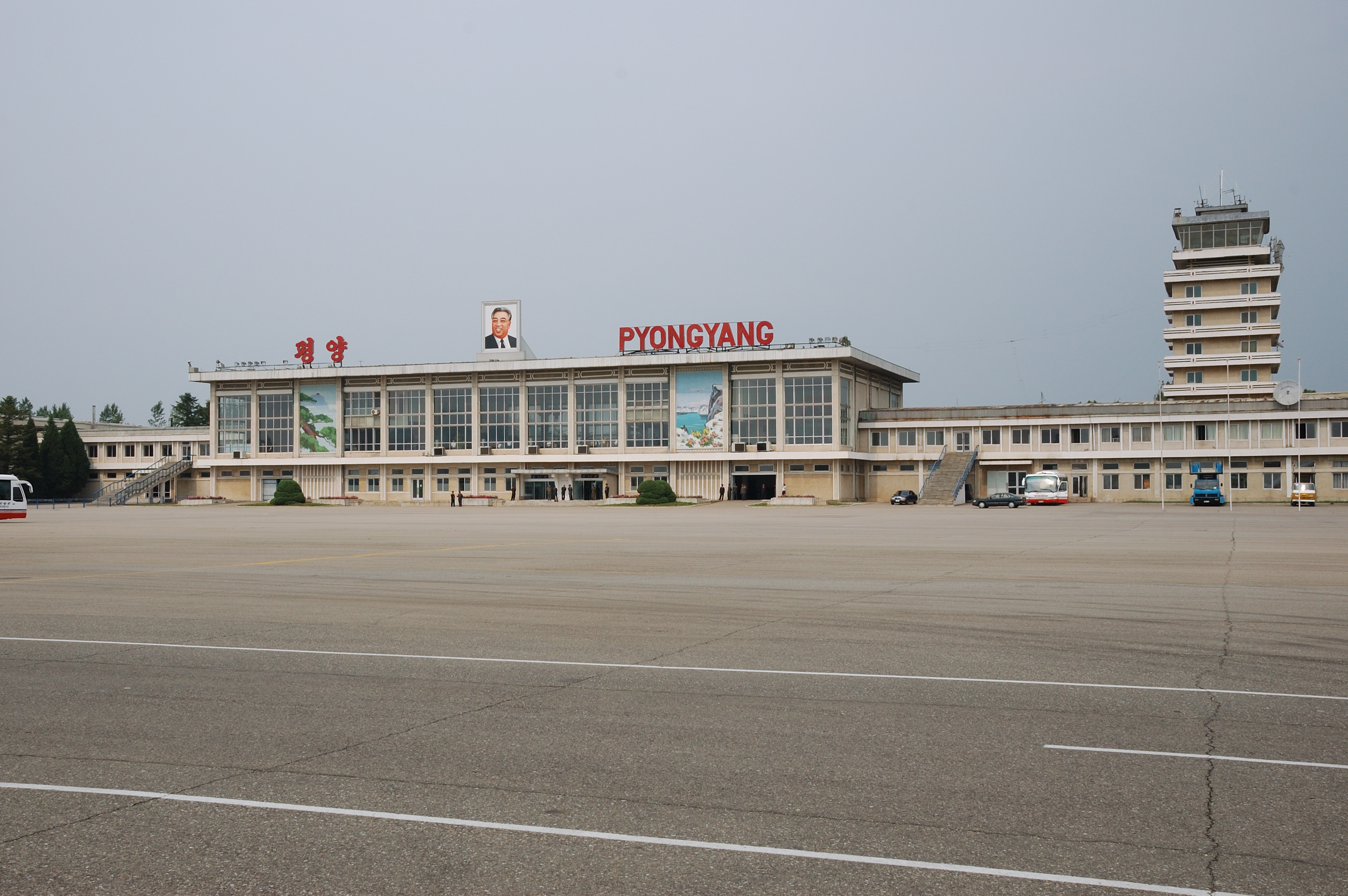 Sunan International Airport - Trip to North Korea in June, 2008